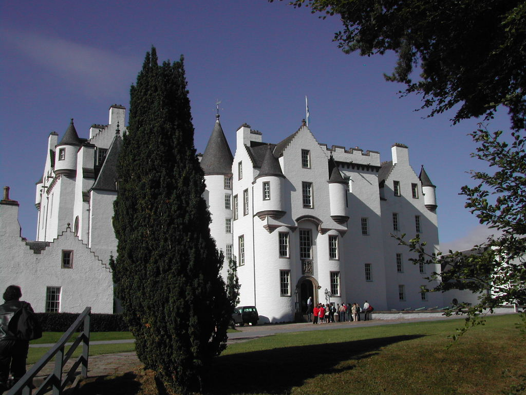 from Hasso Weber - Scotland motorcycle-tour in 2005 (date: 17.08.2005)